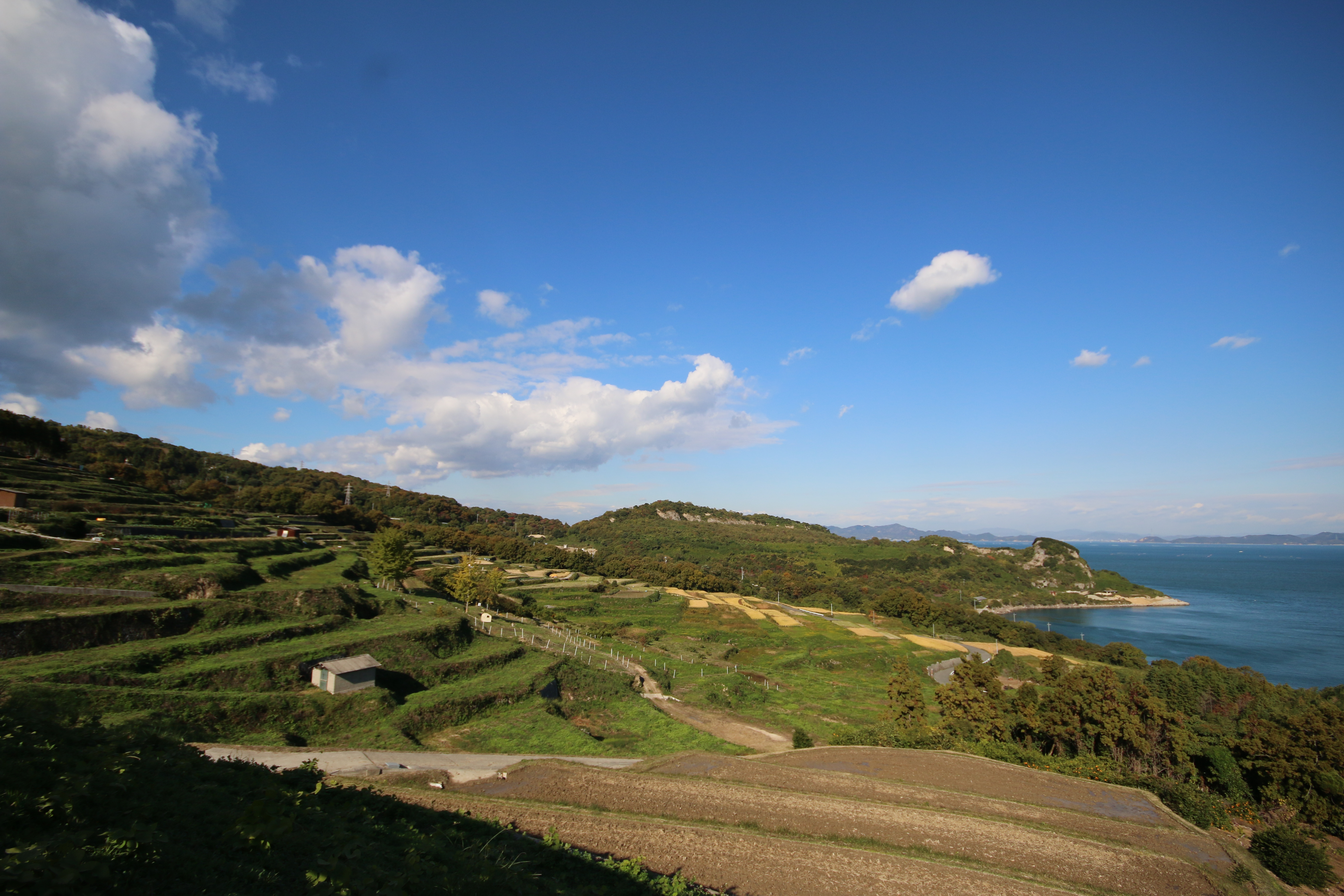 View on the fields of Teshima island in Japon, near Teshima Art Museum